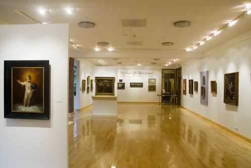 Osilas Gallary